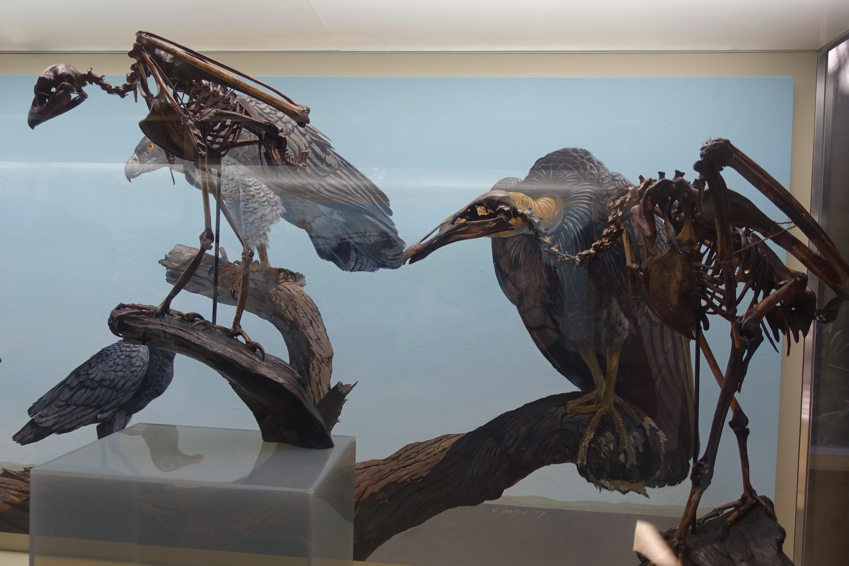 La Brea Tar Pits Museum - Prehistoric Birds